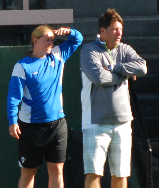 Seattle Reign FC vs Boston Breakers Memorial Stadium, Seattle Center Seattle, WA July 6, 2014